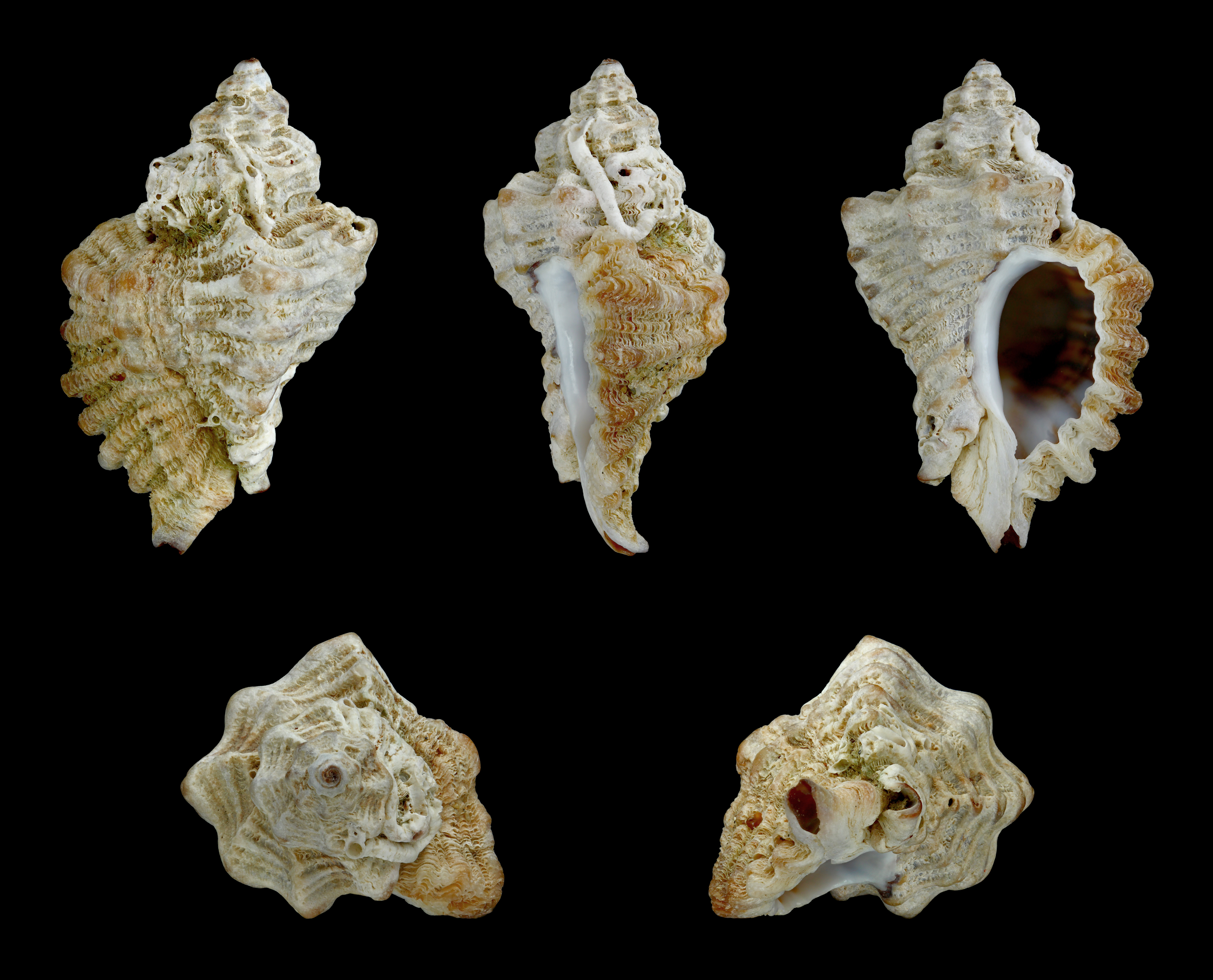 Ocenebra erinaceus Linné, 1758, European Sting Winkle, Length 3.3 cm; Originating from Port Leucate, France; Shell of own collection, therefore not geocoded. Dorsal, lateral (right side), ventral, back, and front view.